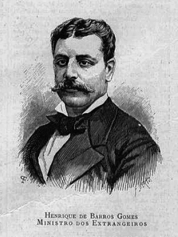 Henrique de Barros Gomes, Ministro dos Negócios da Fazenda (O Ocidente N.º 259 de 1 de Março de 1885 Pag. 93 - Revista Ilustrada de Portugal e do Estrangeiro)